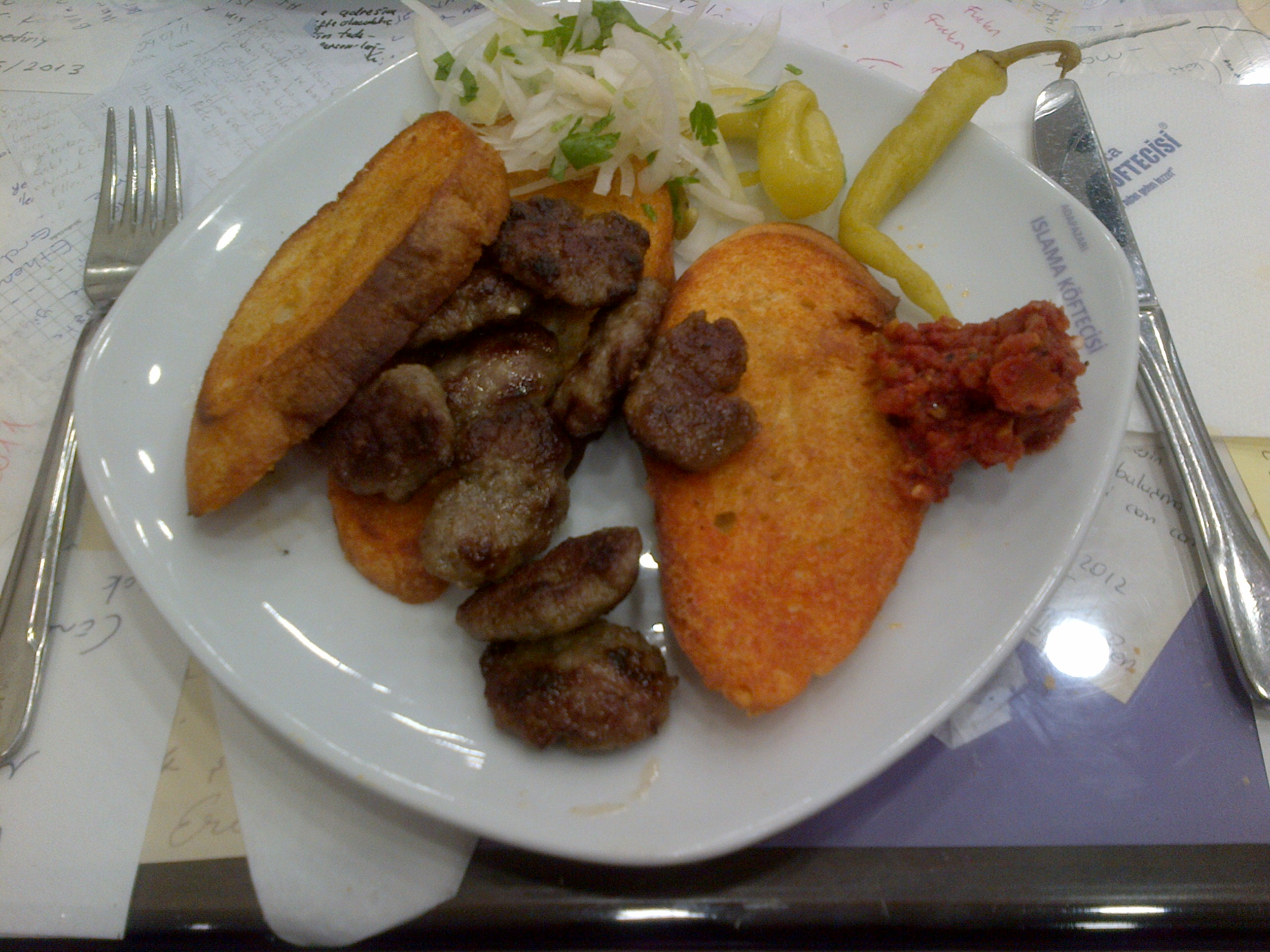 Islama (wet) köfte from the Turkish cuisine.